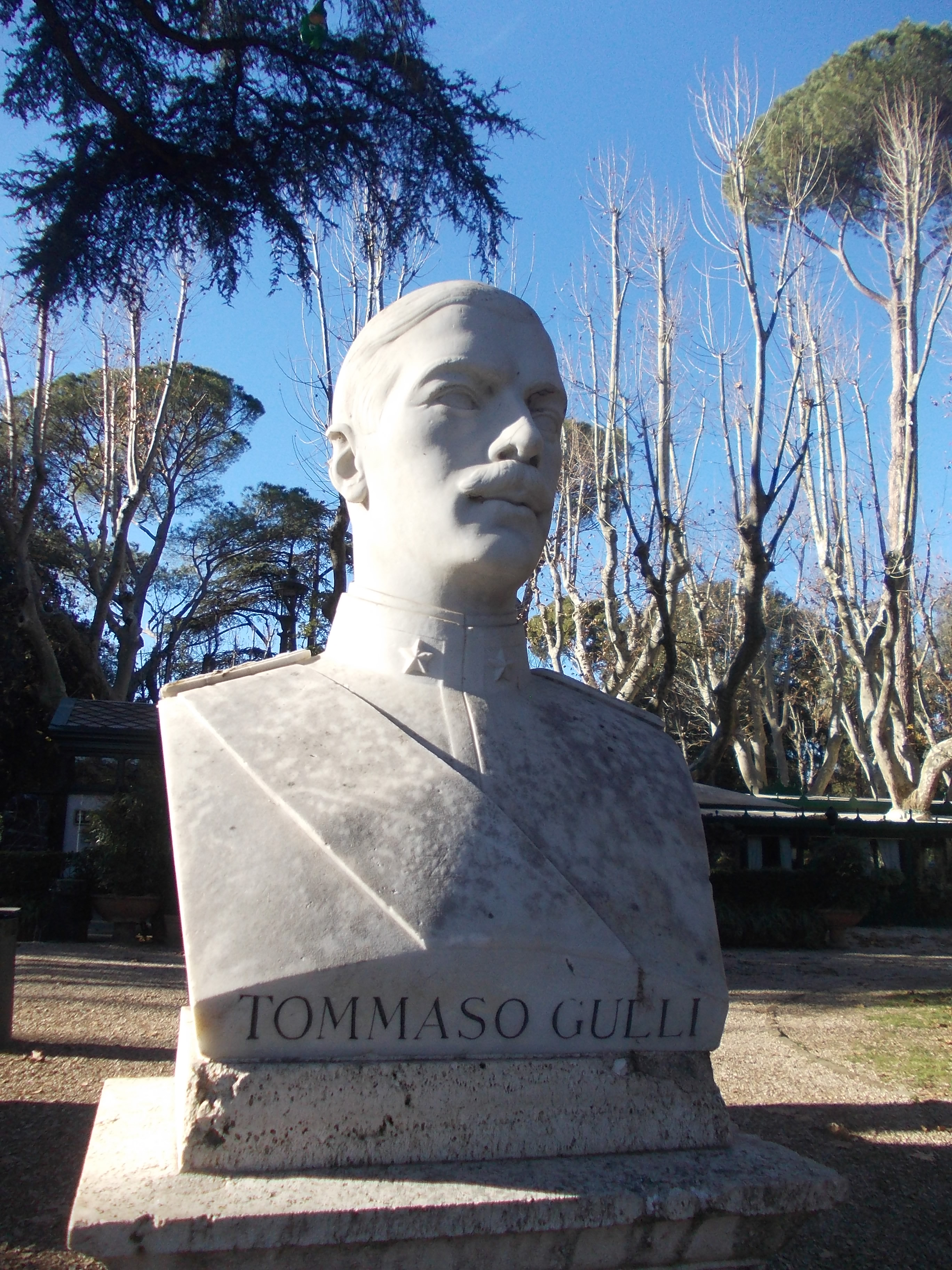 Marble bust of Tommaso Gulli at Pincio, Rome